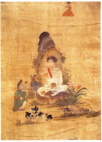 Milarepa, Gonpo Dorje, the deer and the dog.